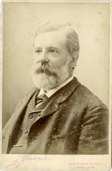 Étienne Jules Marey, photograph by Félix Nadar, Paris, c.1880. 145x103 mm. The negative belongs to the Médiathèque de l'Architecture et du Pa­trimoine.